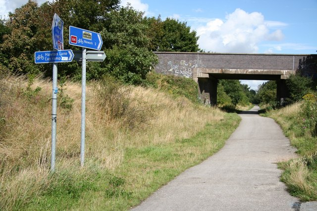 Hawton Lane bridge Road bridge over Hawton Lane and route 64